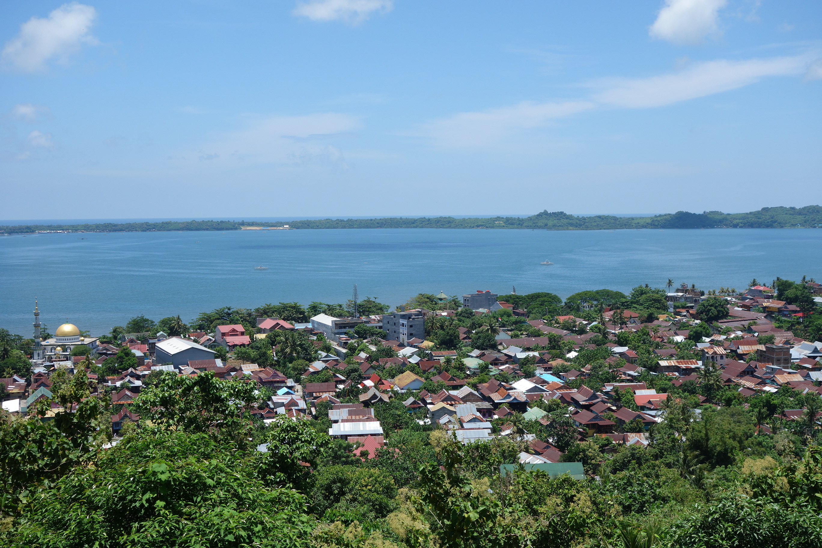 A view of Pare-Pare from a hill outside the town, March 2014